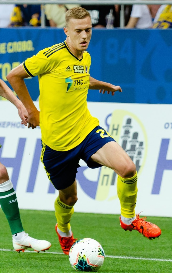 Aleksandr Saplinov with FC Rostov in a game against FC Rubin Kazan.